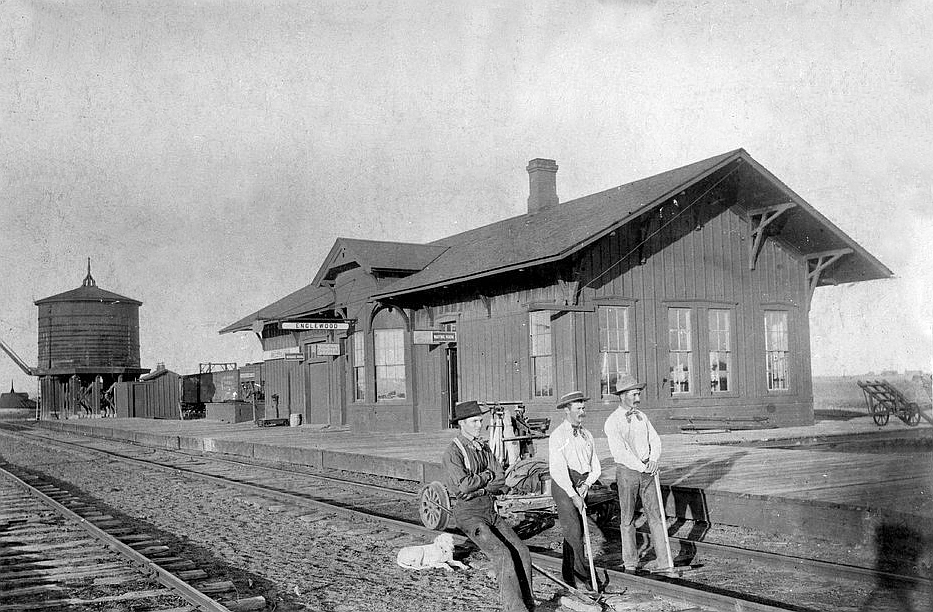 Atchison, Topeka & Santa Fe Railway Company depot at Englewood, Kansas.